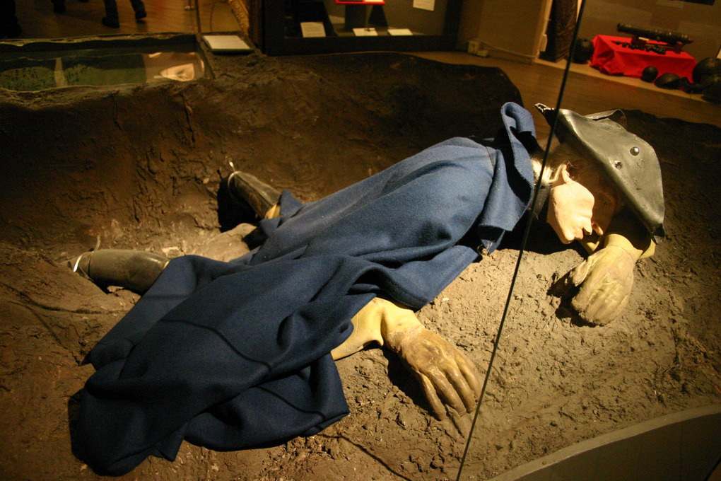 Fredriksten festning, Halden